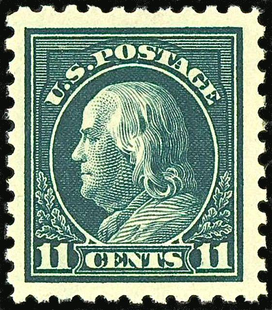 US Postage stamp, Washington-Franklin Issue, 1915, 11c, blue-green